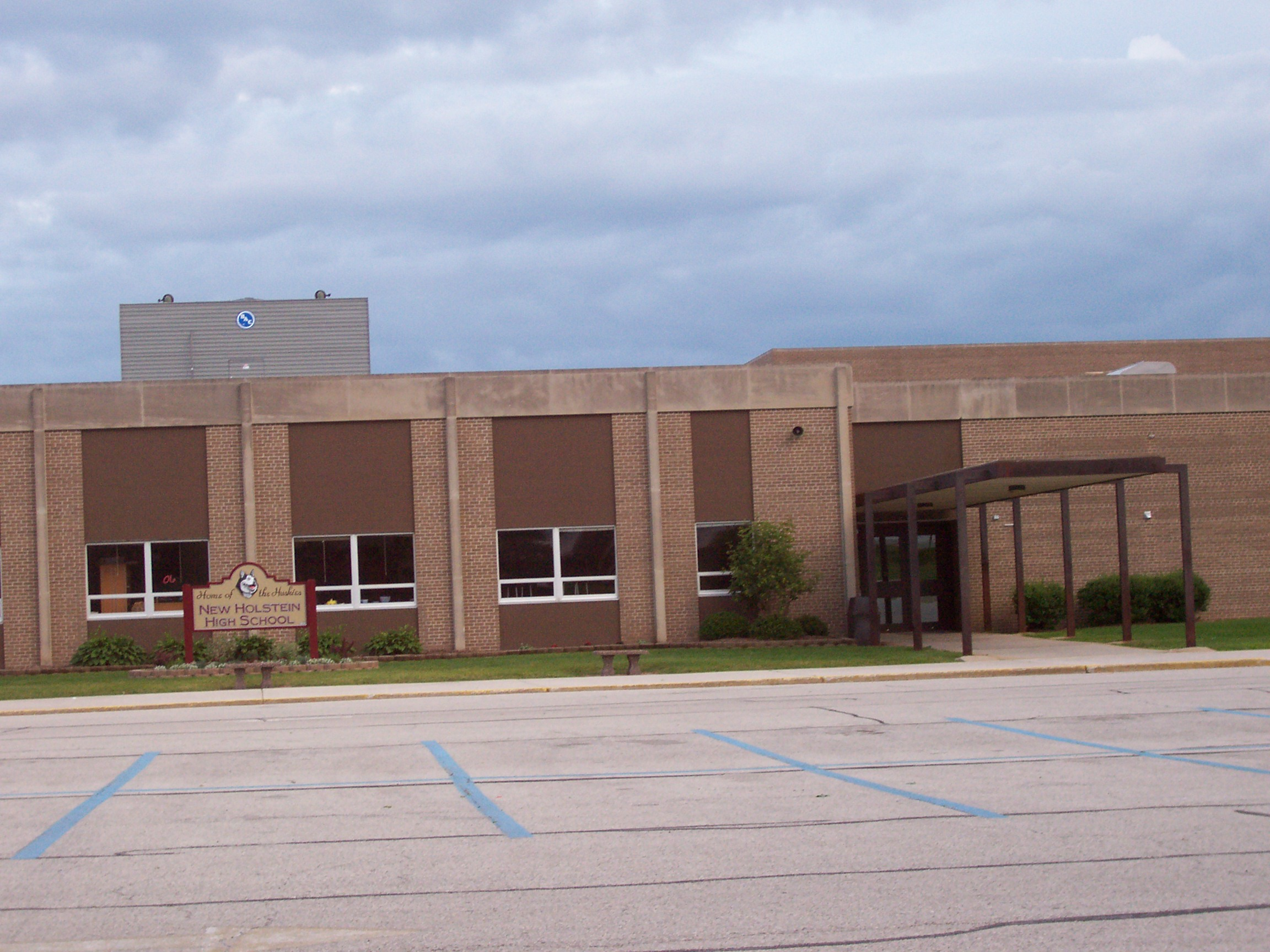 Summary New Holstein High School, New Holstein, Wisconsin, USA, taken June 25 2006 by myself.